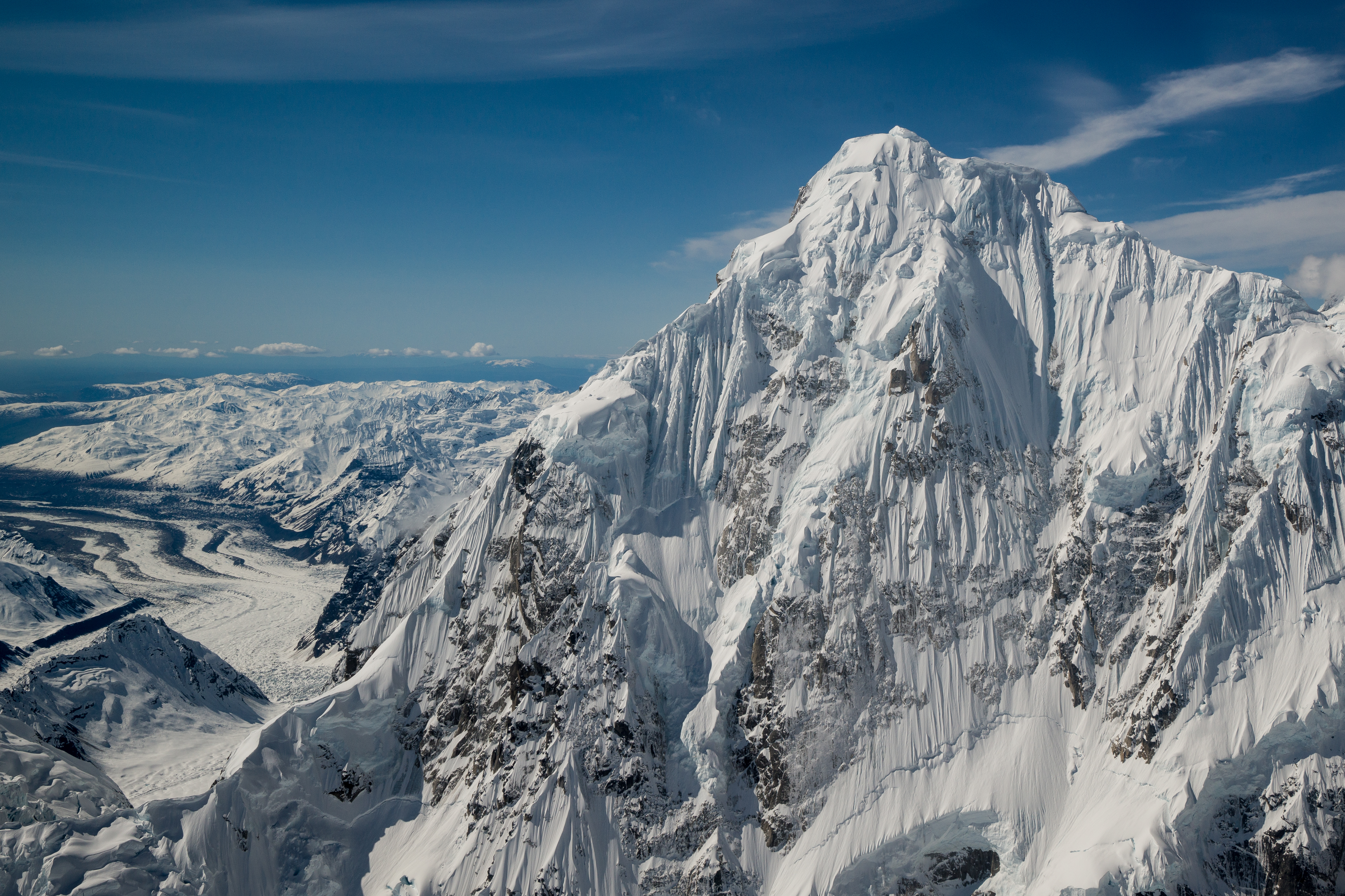 Mount Huntington in Alaska